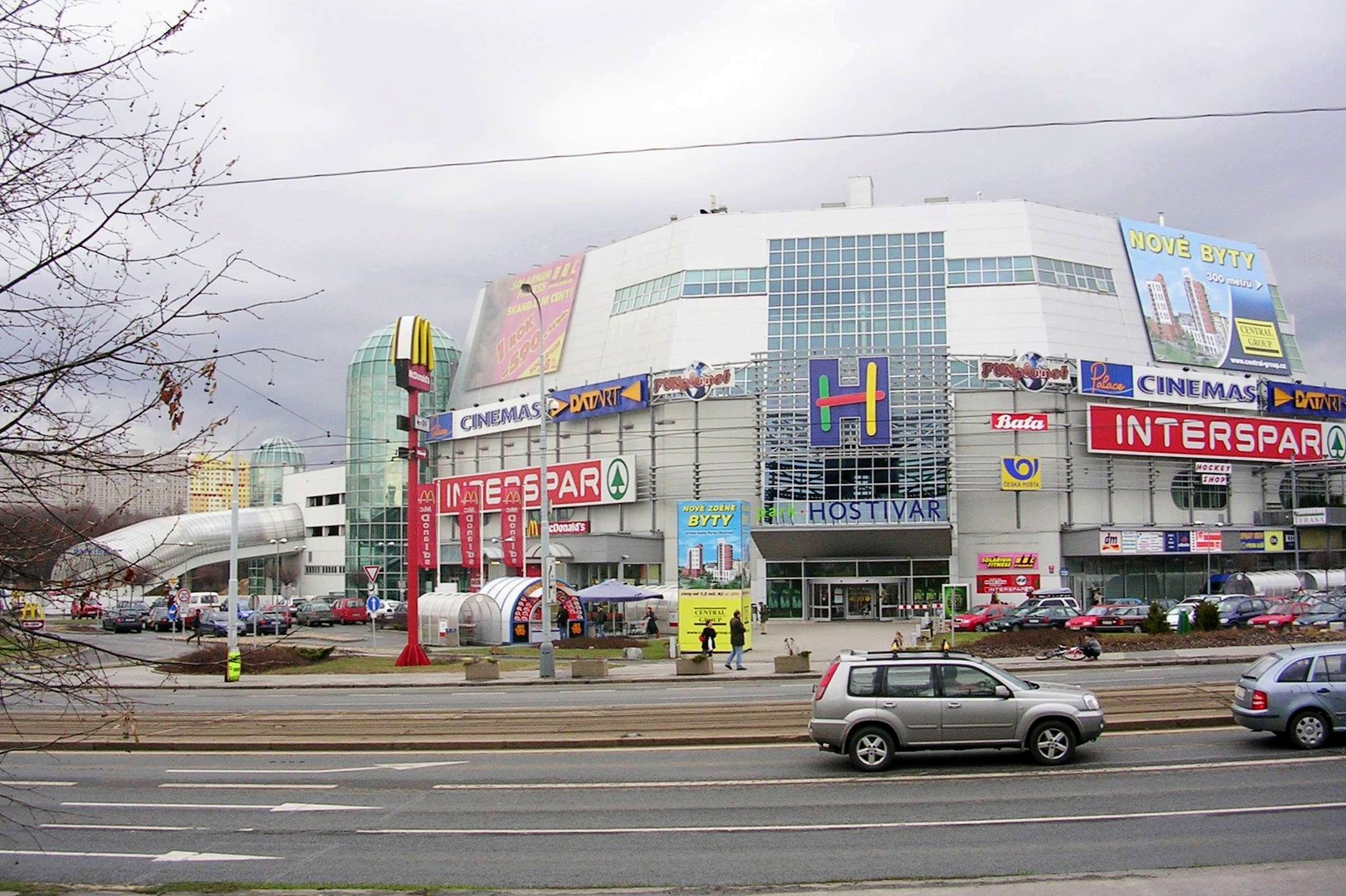 Hostivař-Zahradní Město, Prague, the Czech Republic.